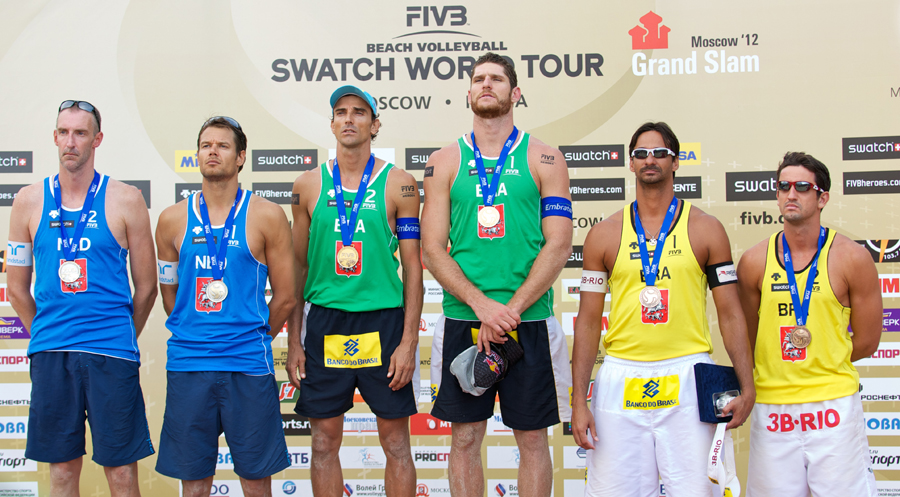 Grand Slam Moscow 2012